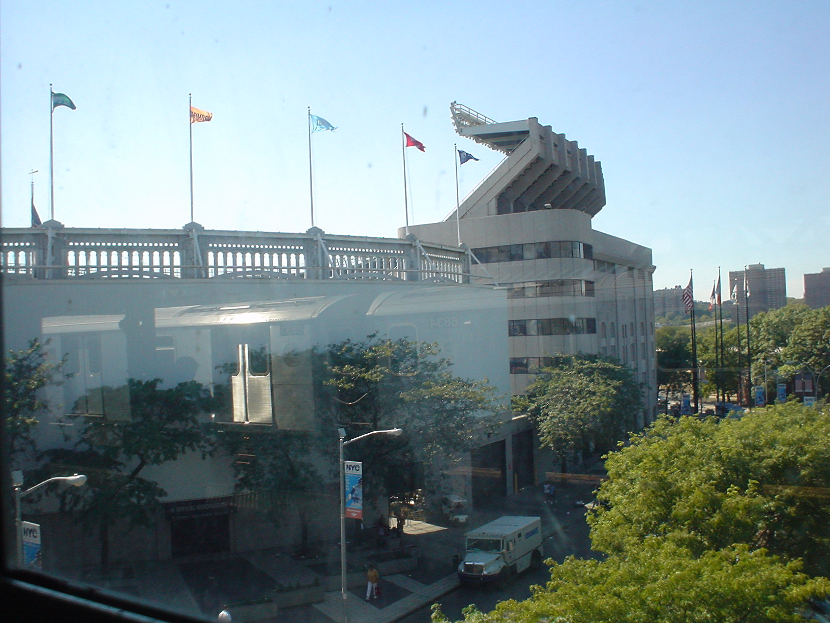 The old Yankee Stadium. I sat right there, at the top on the end!